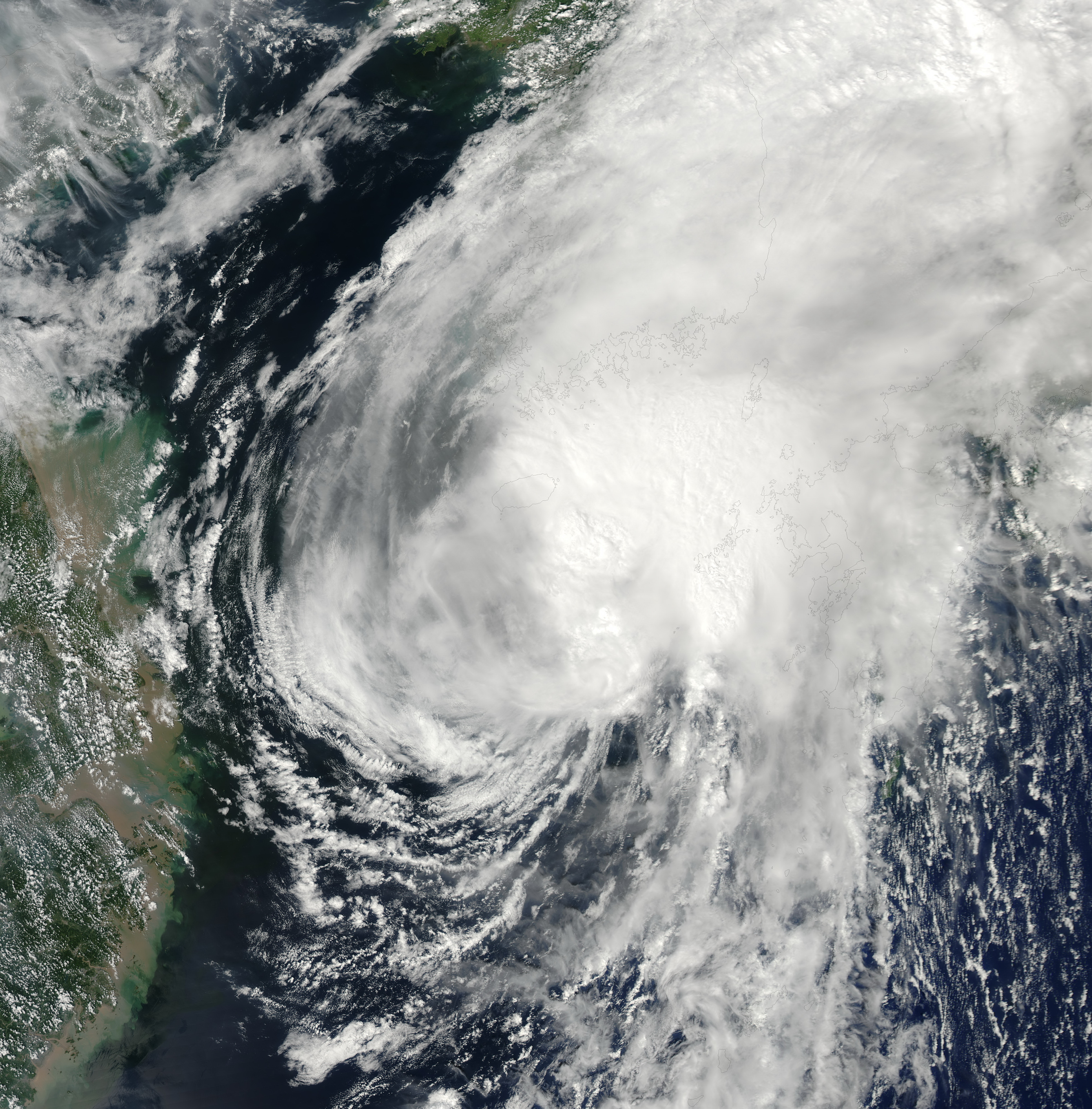 Severe Tropical Storm Malou.